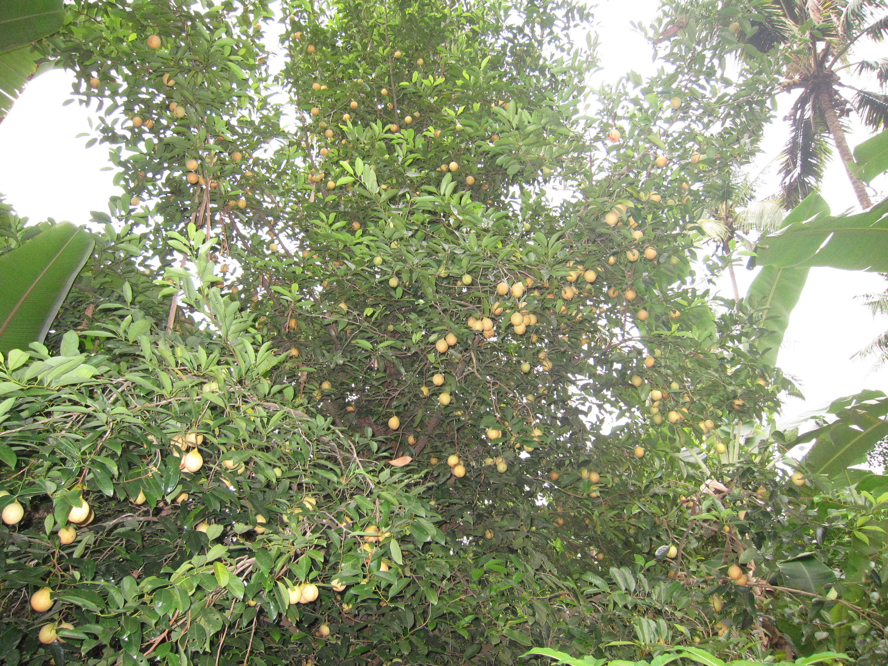 Myristica Fragrans